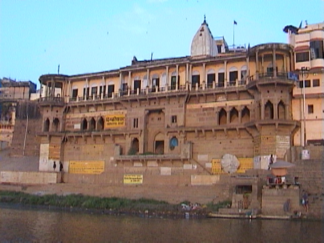 Hindu culture, have attributed supreme importance to the preservation of tradition Classical civilizations, and especially the Indian one, have attributed supreme importance to the preservation of tradition. Its central idea was that social institutions, scientific knowledge and technological applications need to use "heritage" as a "resource". Using contemporary language, we would say that ancient Indians considered, as social resources, both economic assets (like natural resources and their exploitation structure) and factors promoting social integration (like institutions for preserving knowledge and maintaining civil order). Ethics considered that what had been inherited should not be consumed, but should be handed over, possibly enriched, to successive generations. This was a moral imperative for all, except in the final life stage of sannyasa